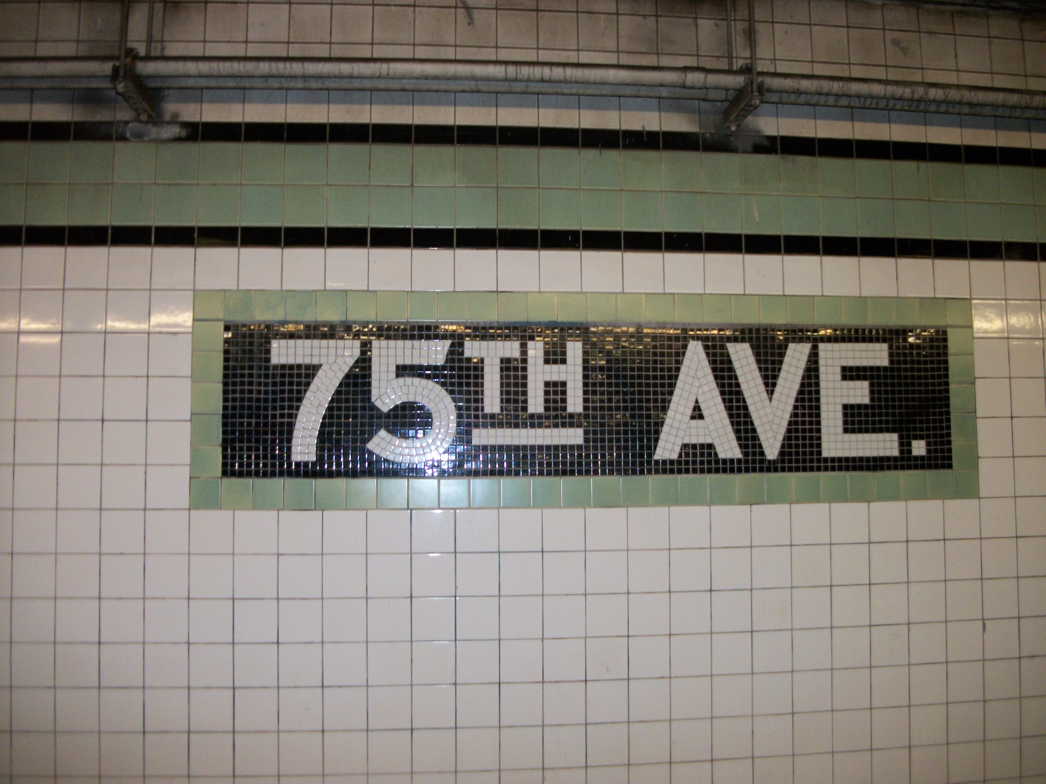 The 75th Avenue (IND Queens Boulevard Line) mosaics in Forest Hills, Queens, New York.